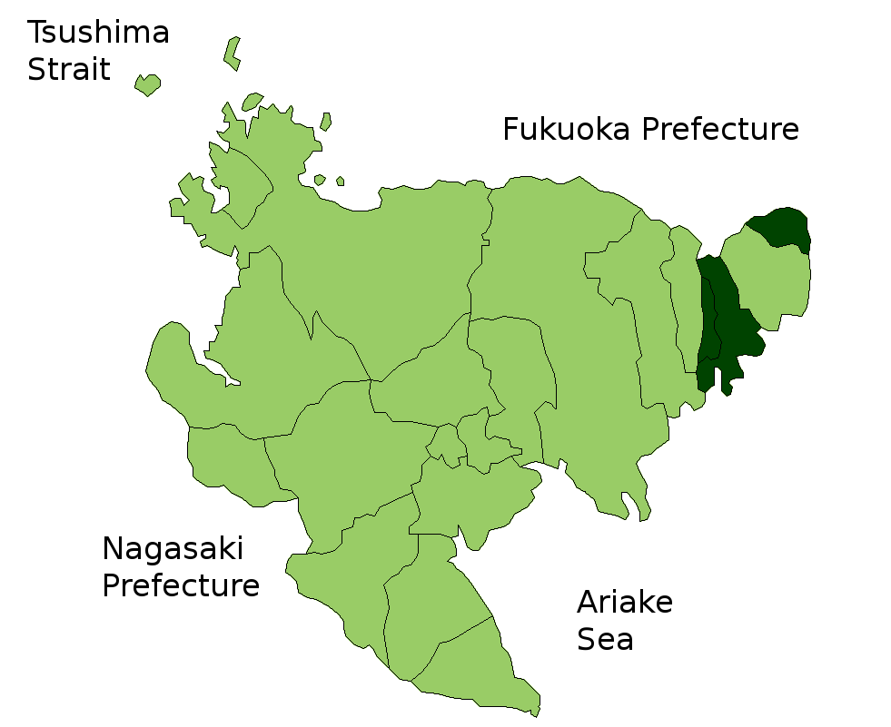 Location Map of Miyaki District in Saga Prefecture, Japan